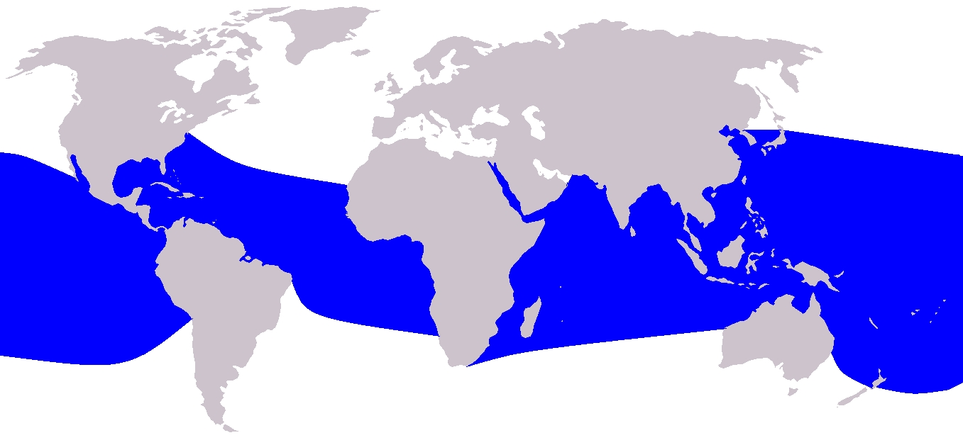 Spinner Dolphin (Stenella longirostris) range map